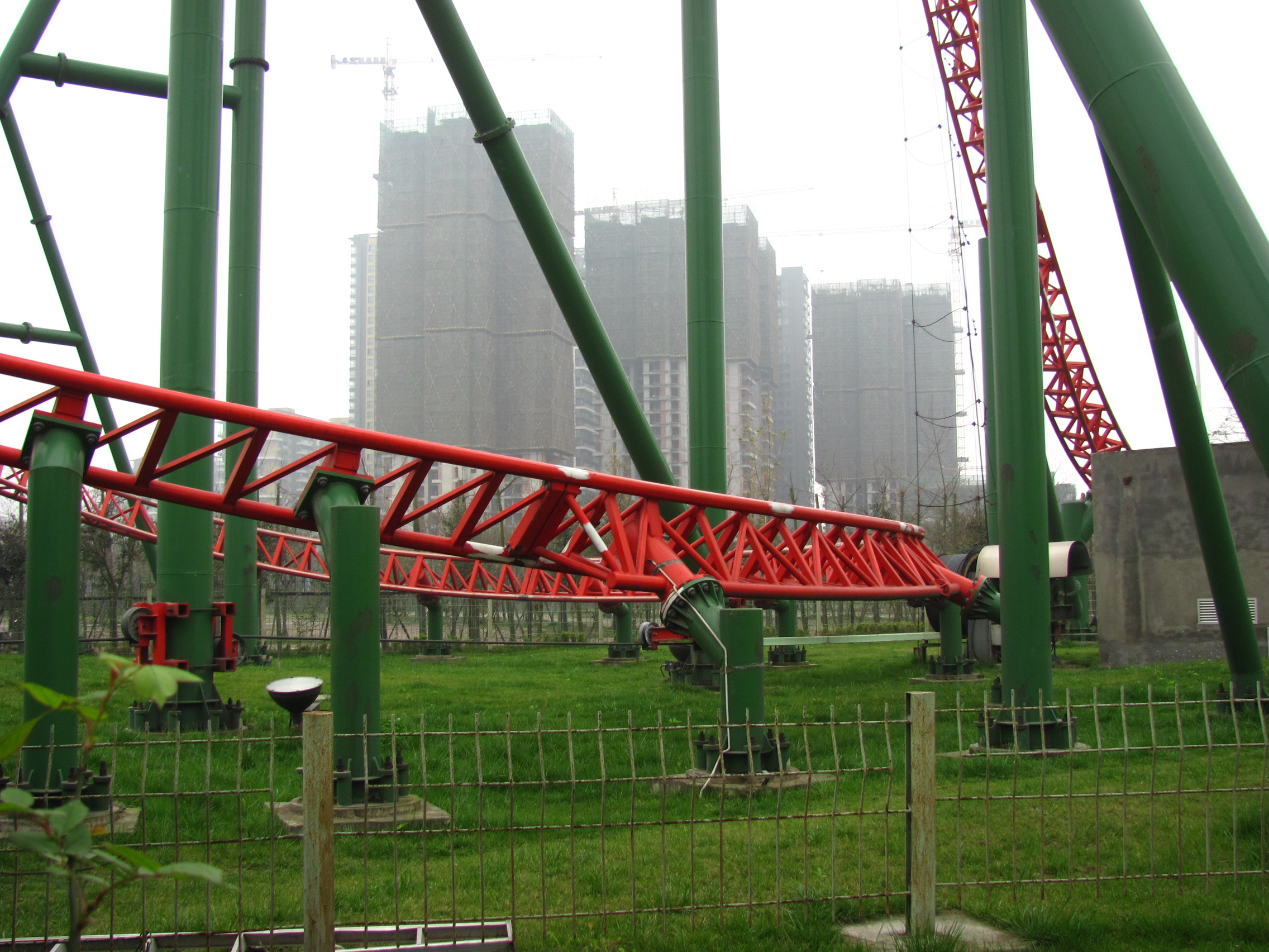 Dream of Mediterranean